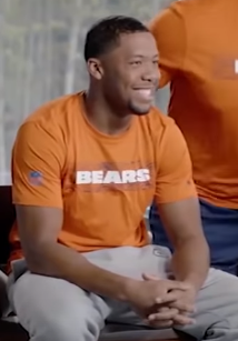 Kyle Fuller in 2018